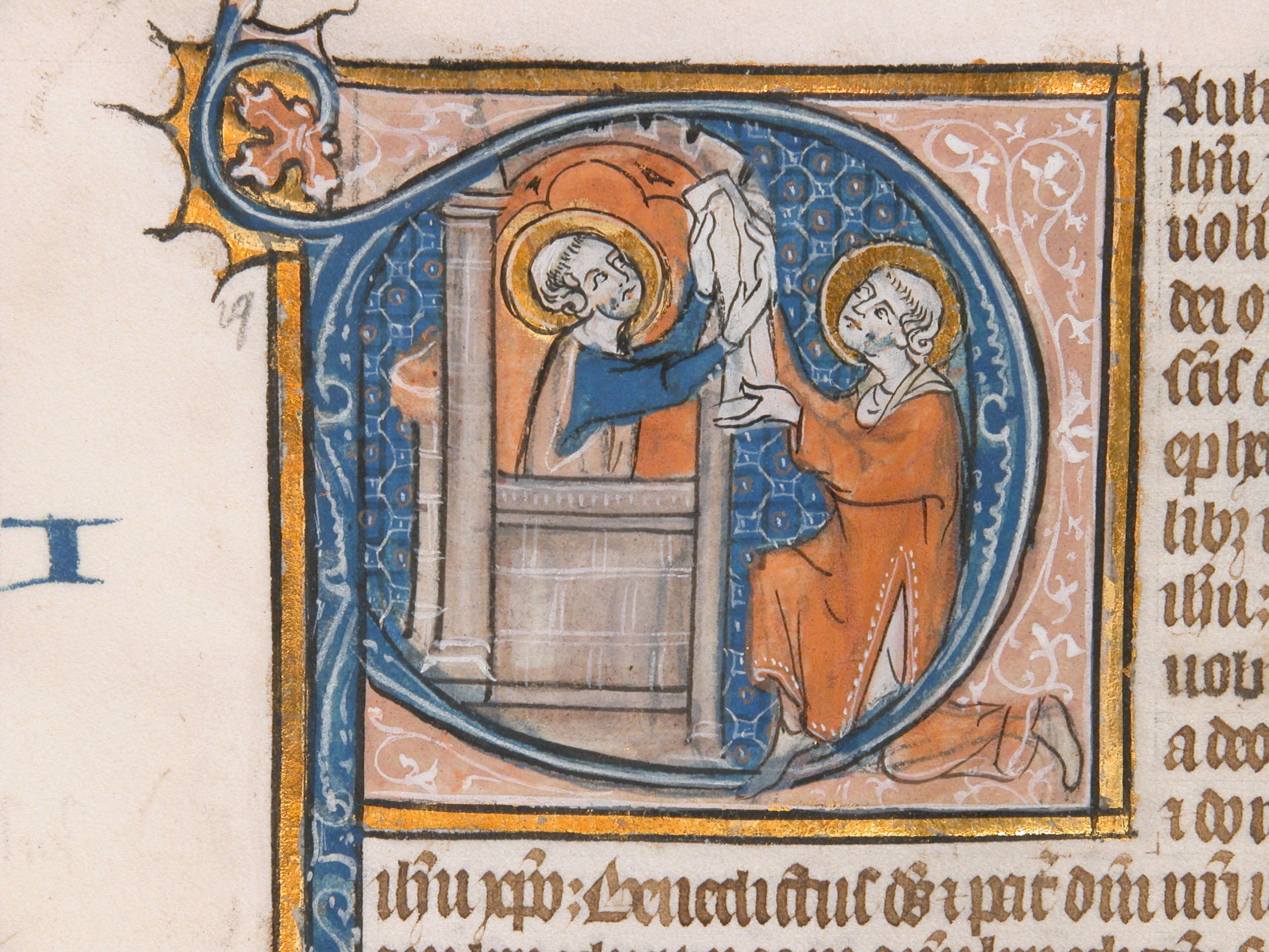 French; Bible; Manuscript leaf; Manuscripts and Illuminations